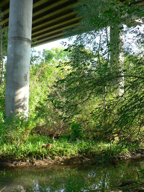 The bridge over the Starka river